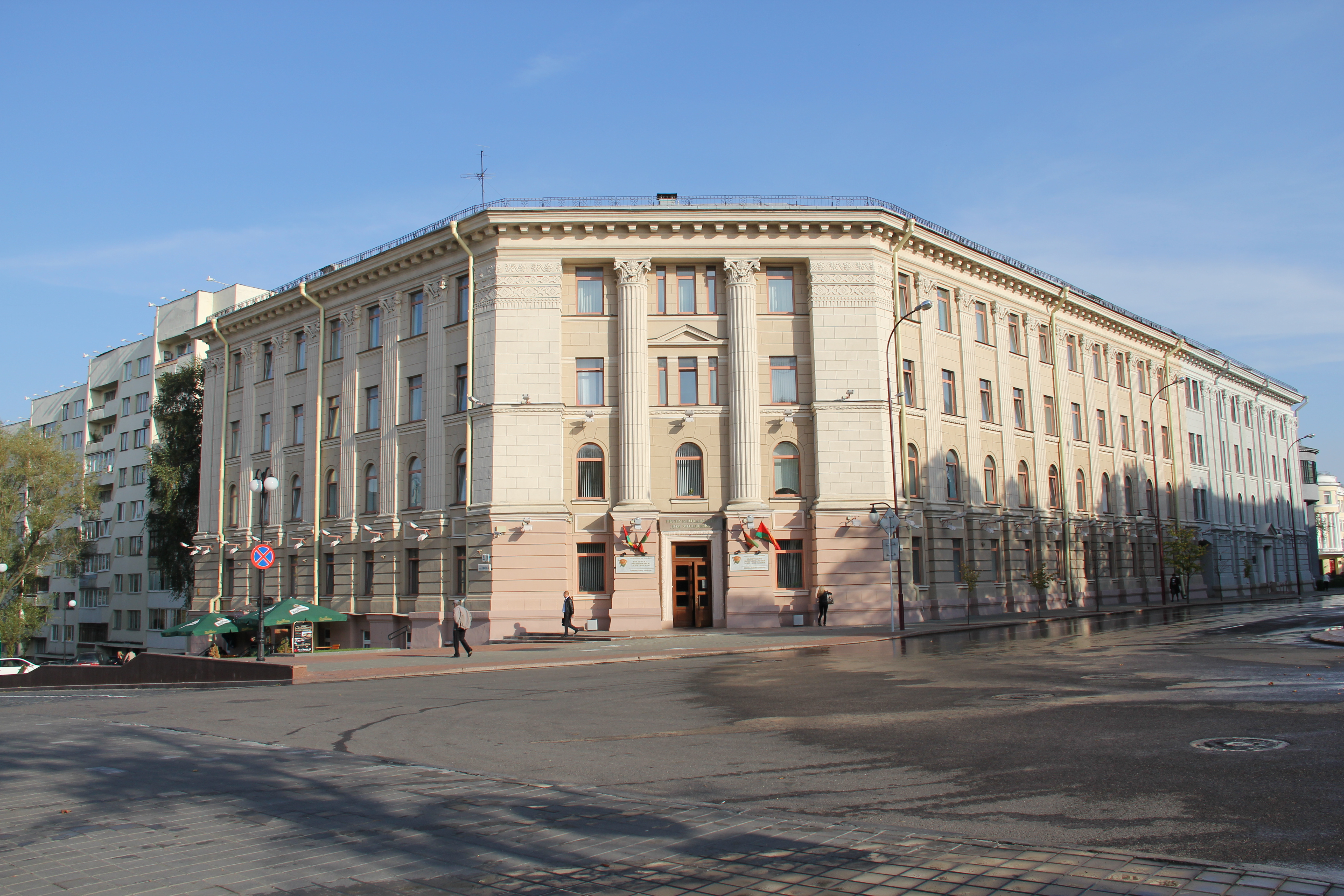 Беларуская (тарашкевіца): Будынак. г. Менск This is a photo of Belarusian heritage monument. Reference number: 713Г000133 ( WLM)